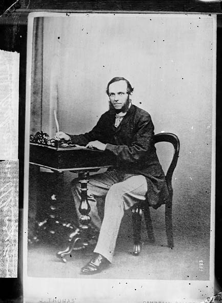 1 negative : glass, wet collodion, b&w ; 11 x 8 cm.